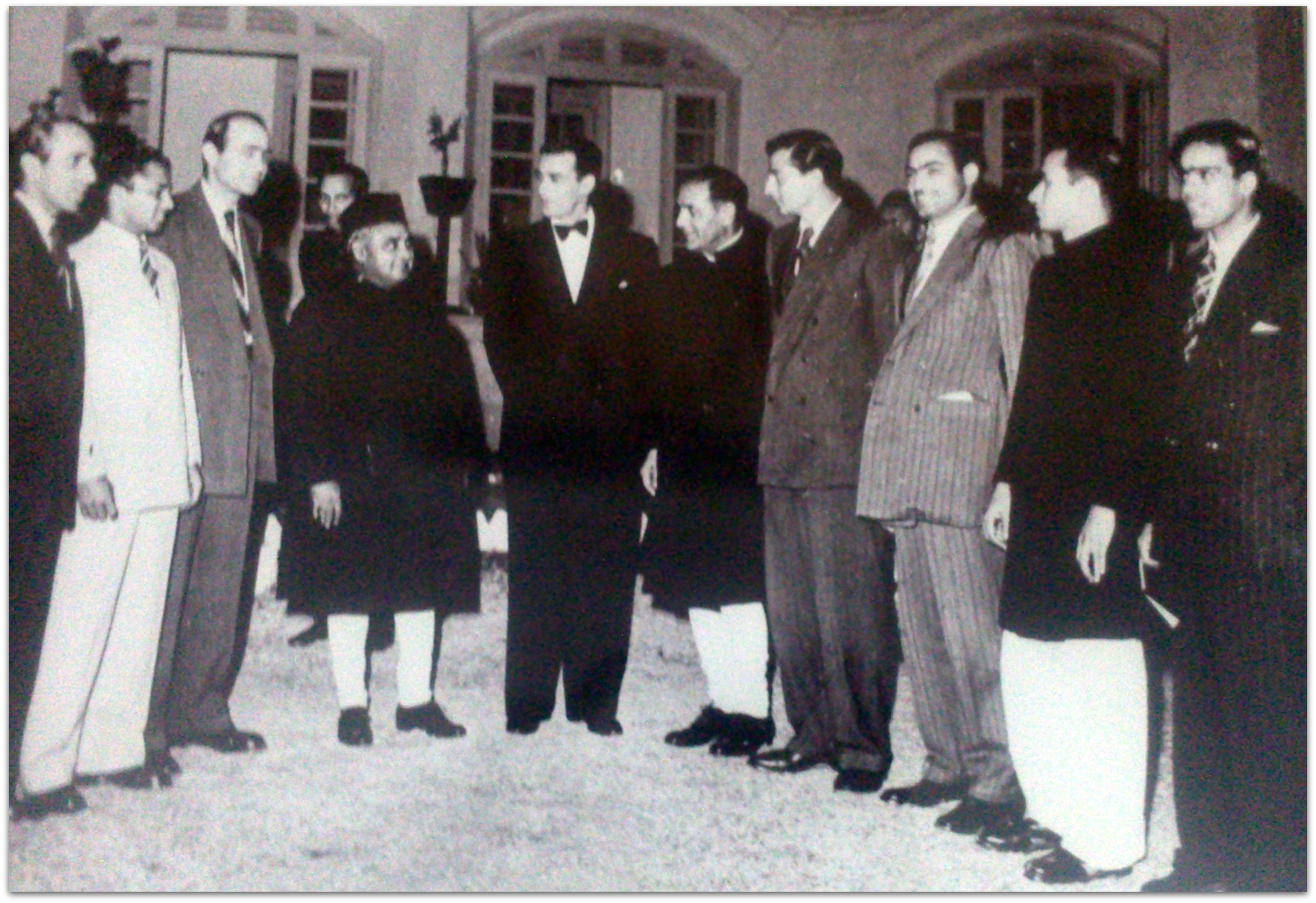 Pakistan Cricket team meets Governor General Khawaja Nazimuddin before Departure to India